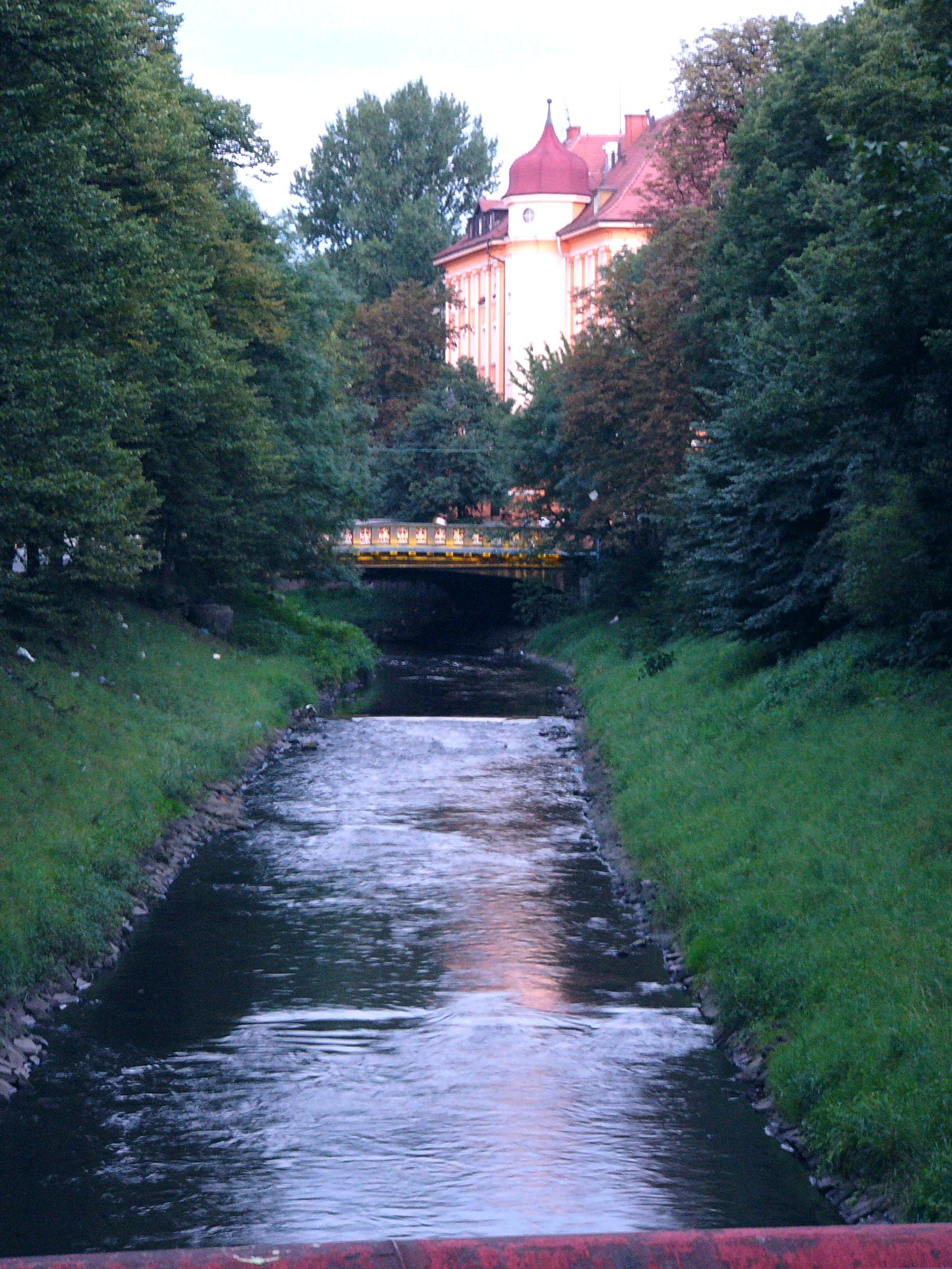 River Kłodnica in the city centre of Gliwice, Poland.